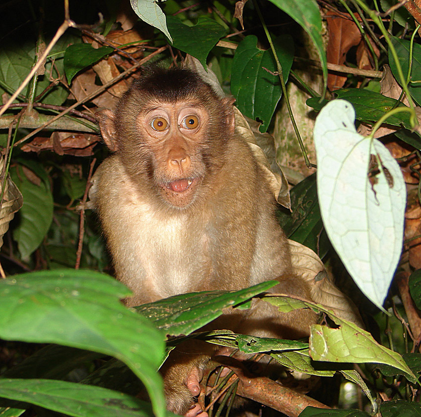 YIKES, A HUMAN!! Native to Thailand, Malaysia and western Indonesia, where it is known as Beruk. Photo from northeastern Sabah, Borneo. In context at